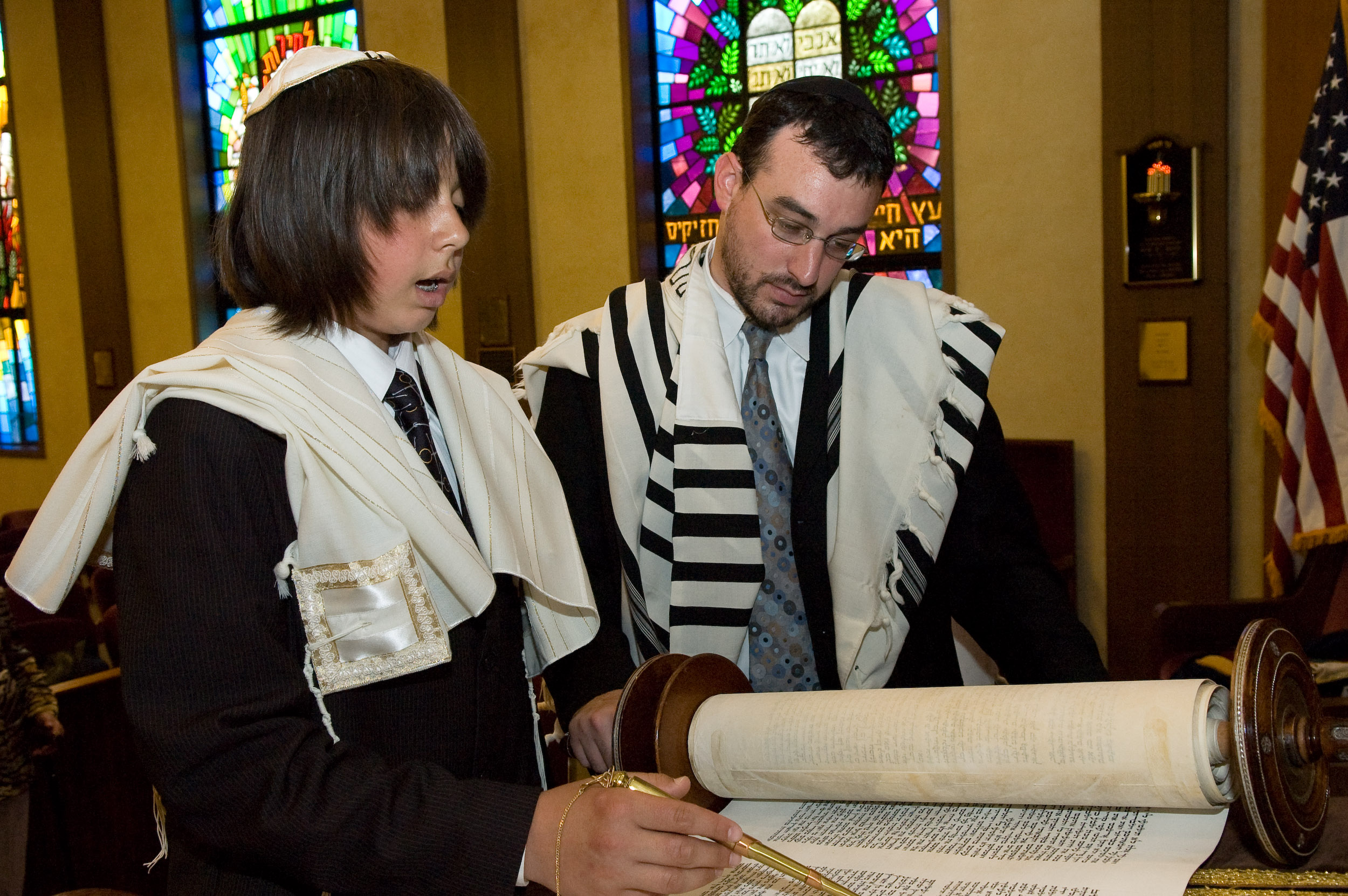 Jewish boy reading a Torah scroll at his Bar Mitzvah, using a Torah pointer.